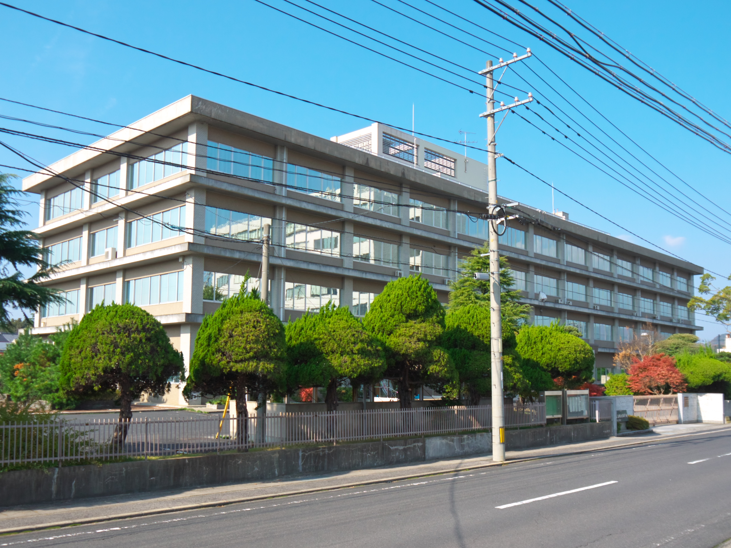 Matsue legal affairs joint government building Hiroshima High Public Prosecutors Office / Matsue Branch Matsue District Public Prosecutors Office Matsue Local Public Prosecutors Office Unnan Local Public Prosecutors Office Matsue District Legal Affairs Bureau